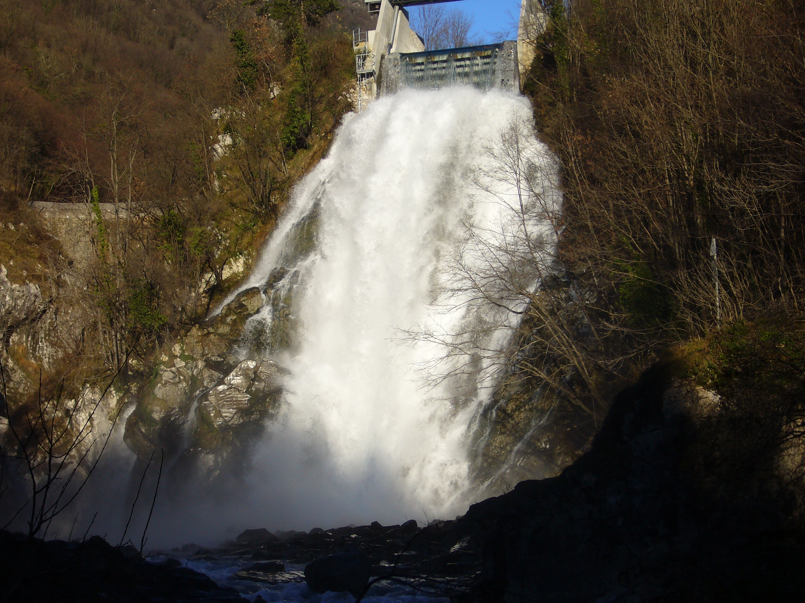 Waterfall of Crosis, near Tarcento, Italy